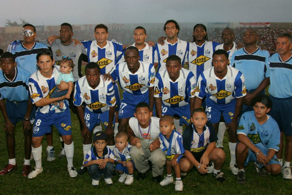 Runners up